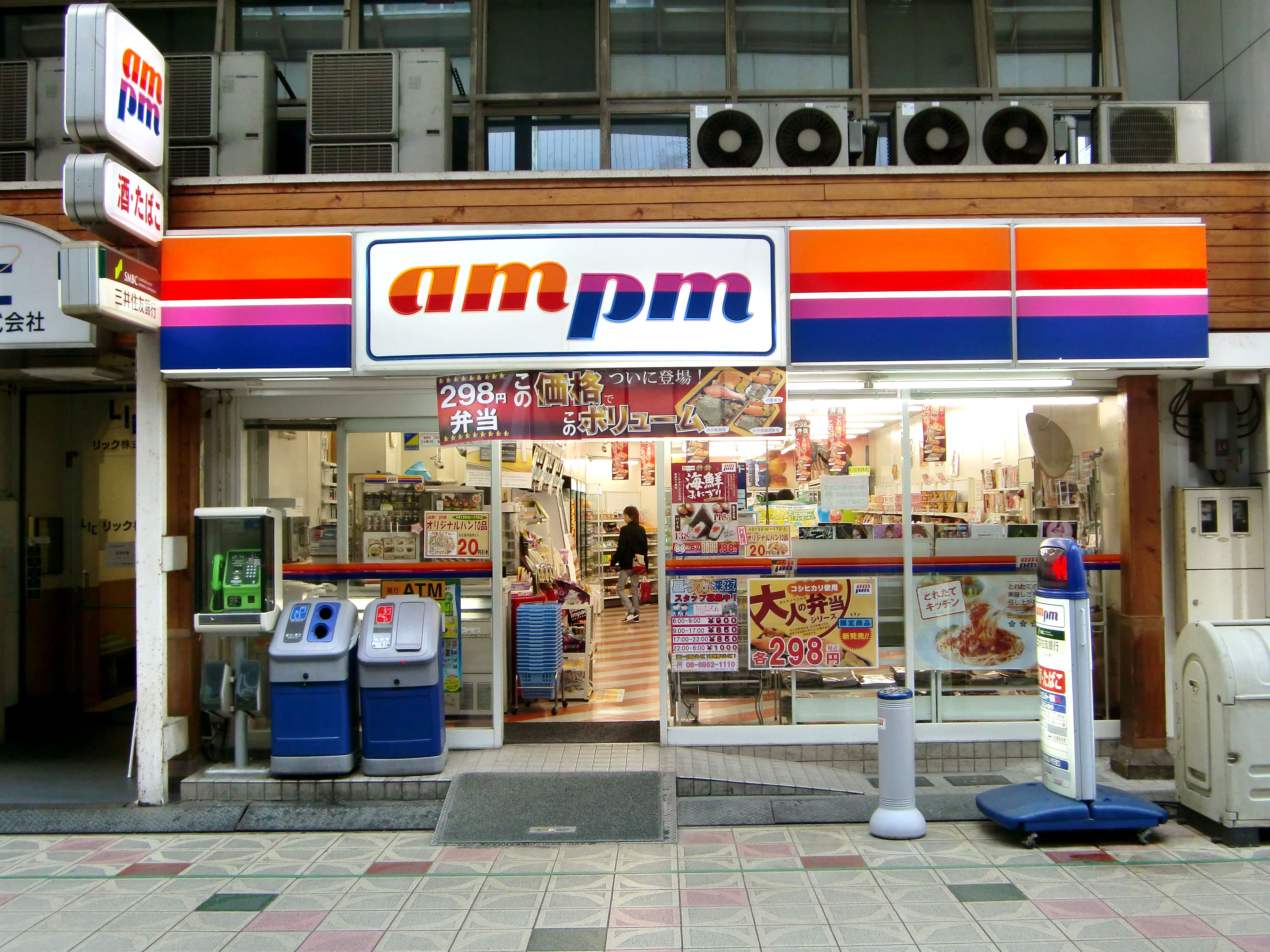 am/pm ,Minamikyuhojimachi-3chome, 3-3-2 Minamikyuhojimachi Chuo-ku Osaka-City Osaka Japan.